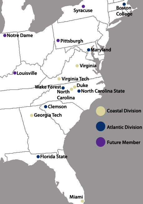 Map showing the locations of the Atlantic Coast Conference members (updated November 2012)